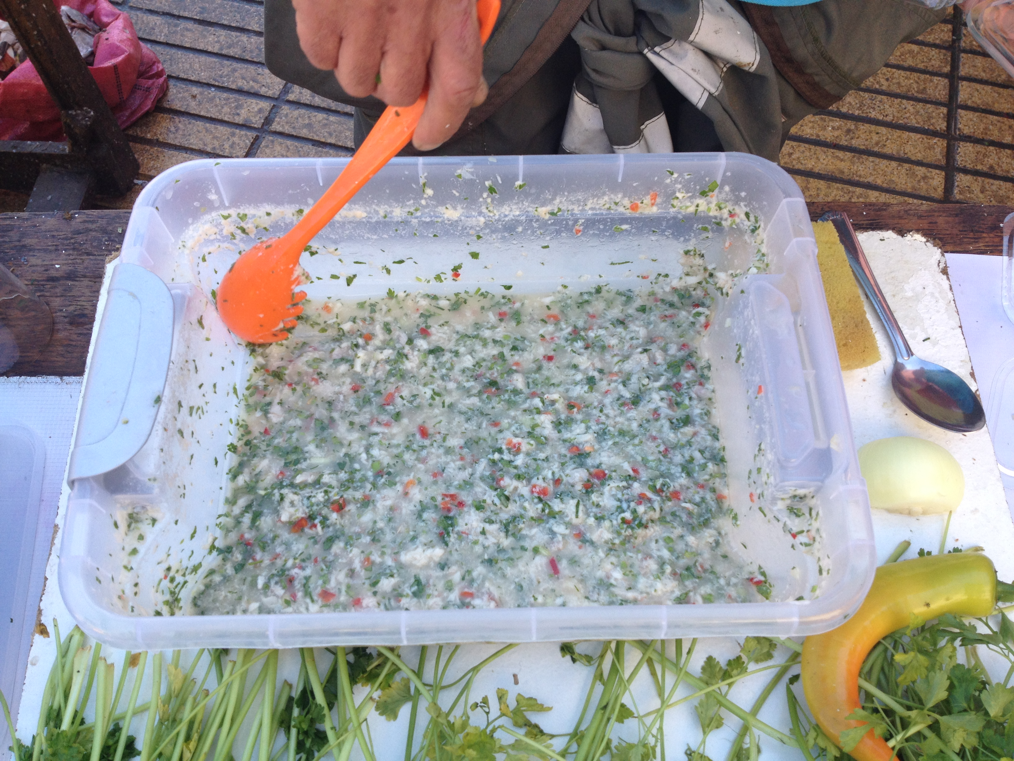 Venta de ceviche de reineta y albacora en el mercadito del pasaje de la Matriz en Valparaíso